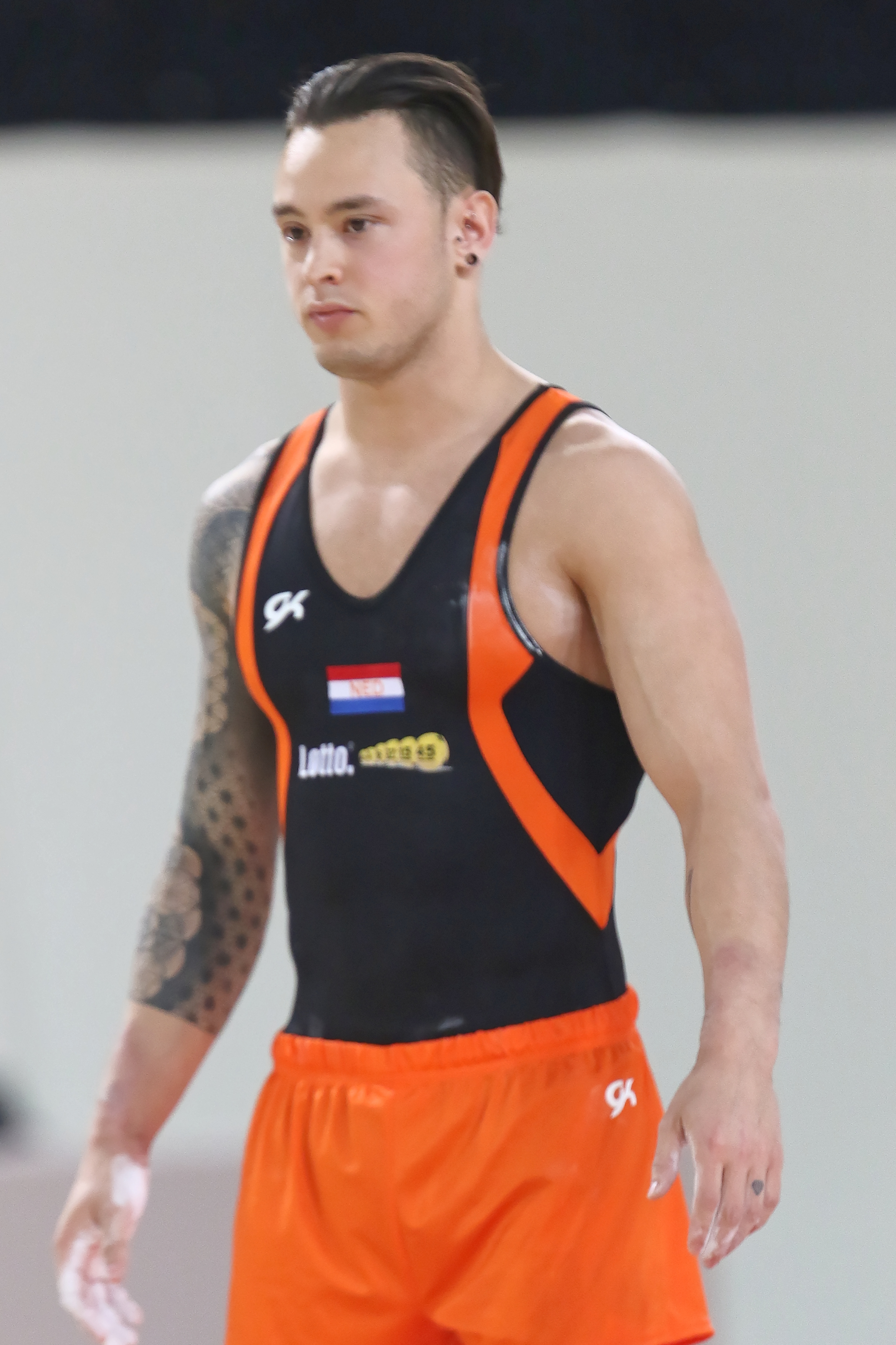 2015 European Artistic Gymnastics Championships. Floor.